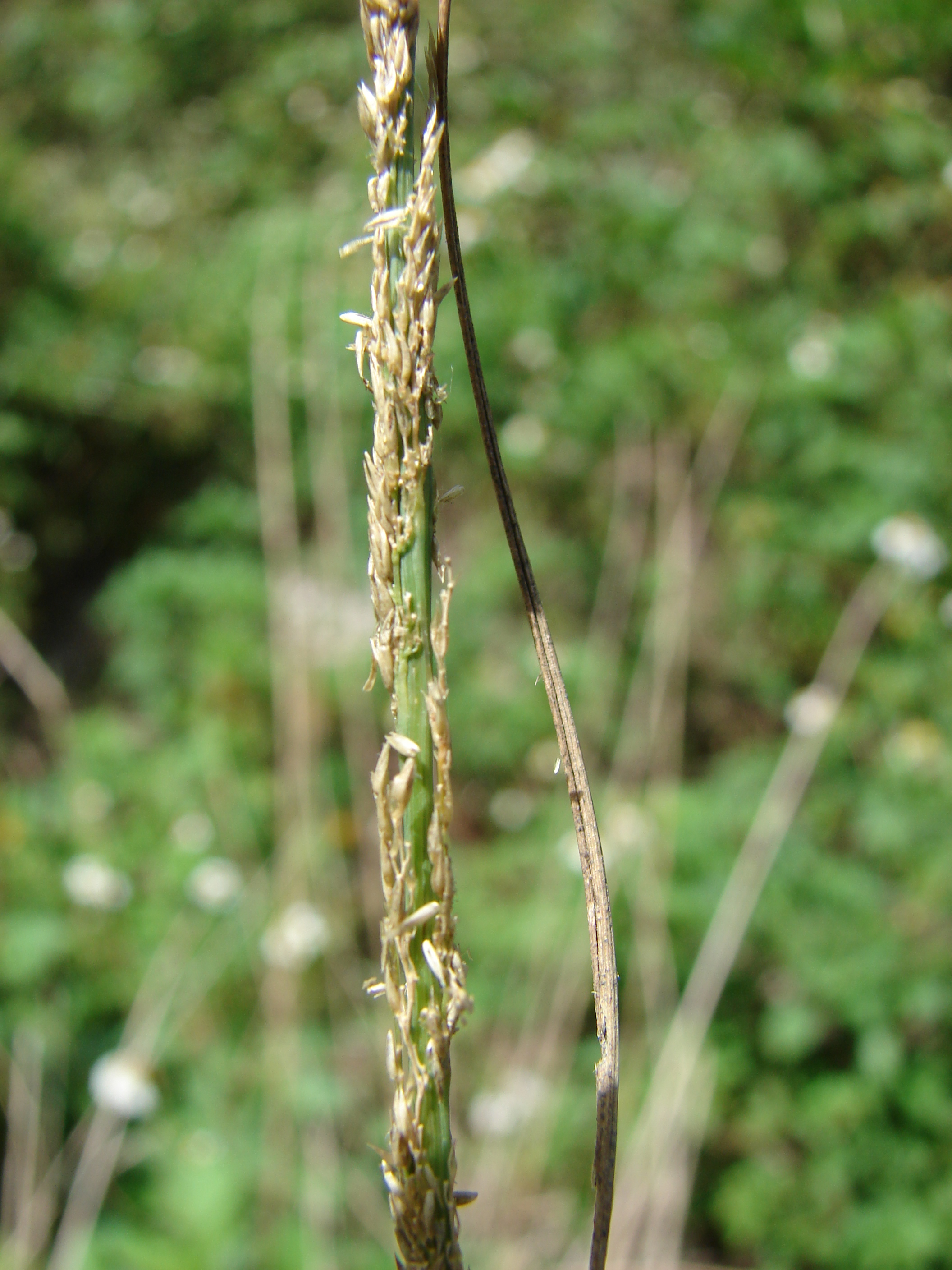 Sporobolus indicus (seedheads). Location: Midway Atoll, East of northsouth runway Sand Island